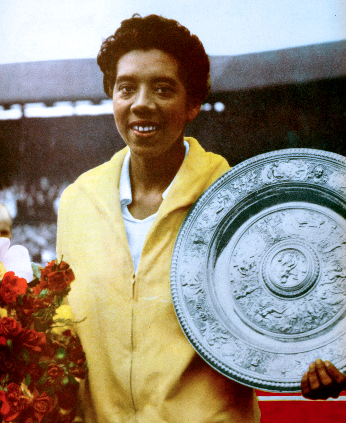 Althea Gibson, Wimbledon women's champion, on the cover of El Gráfico for August 29, 1958. Edition 2033.